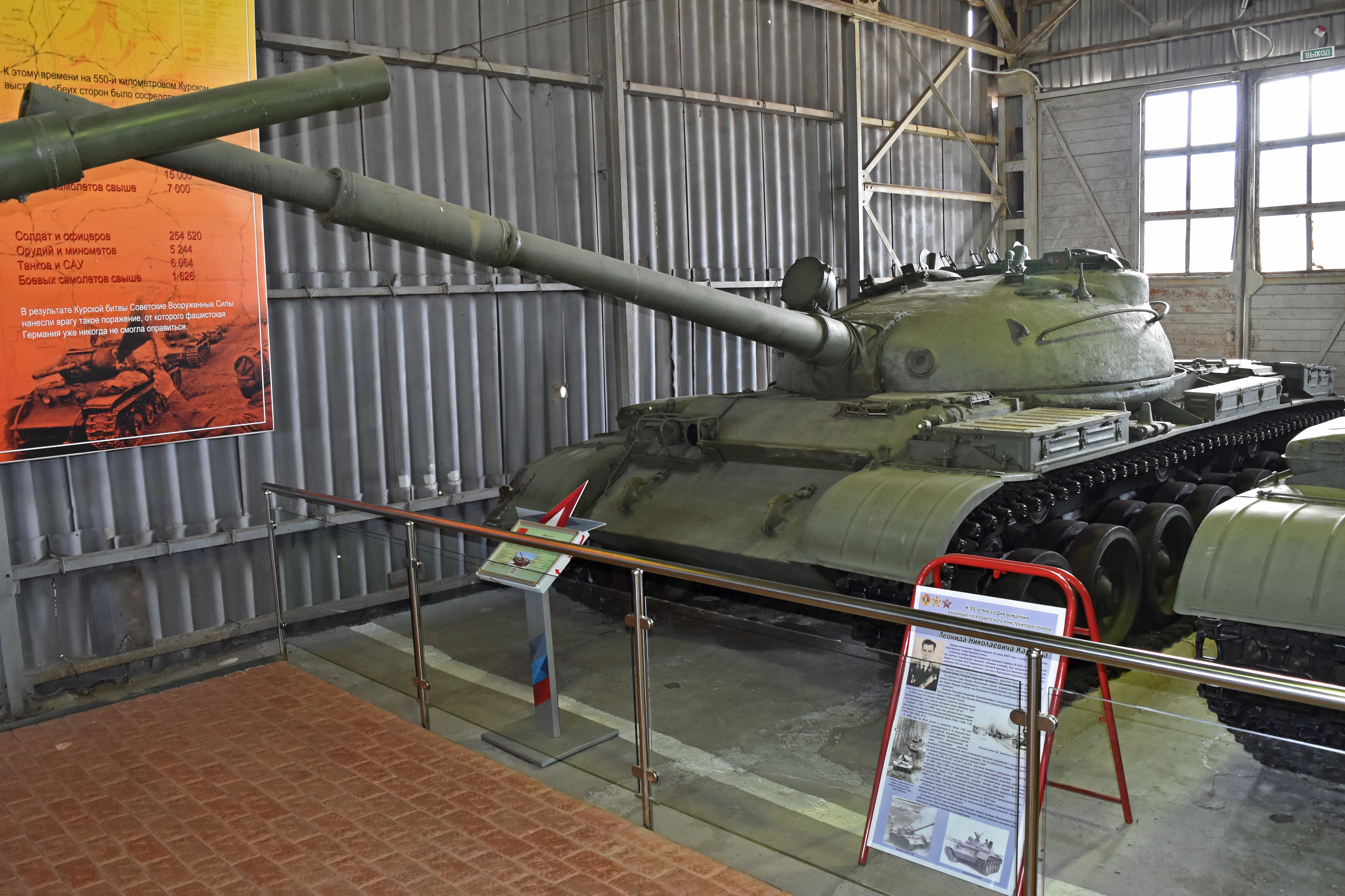 The Obiekt 167 (Object 167) was an experimental tank design with a conventional live track and return roller arrangement. The aim was to improve the cross-country performance relative to the T-62. It was also armed with a 9M14 (‘AT-3 Sagger’) missile system on the turret rear. On display in what is best known as Hall 2 of the Kubinka Tank Museum, although its official title is now Pavilion 2 in Area 2 of the Park Patriot museum. Kubinka, Moscow Oblast, Russia. 24th August 2017.